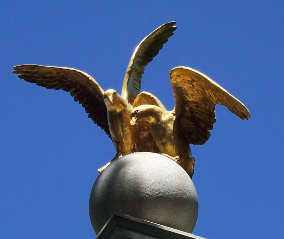 This picture was taken by me on May 21st, 2005 at Temple Square.